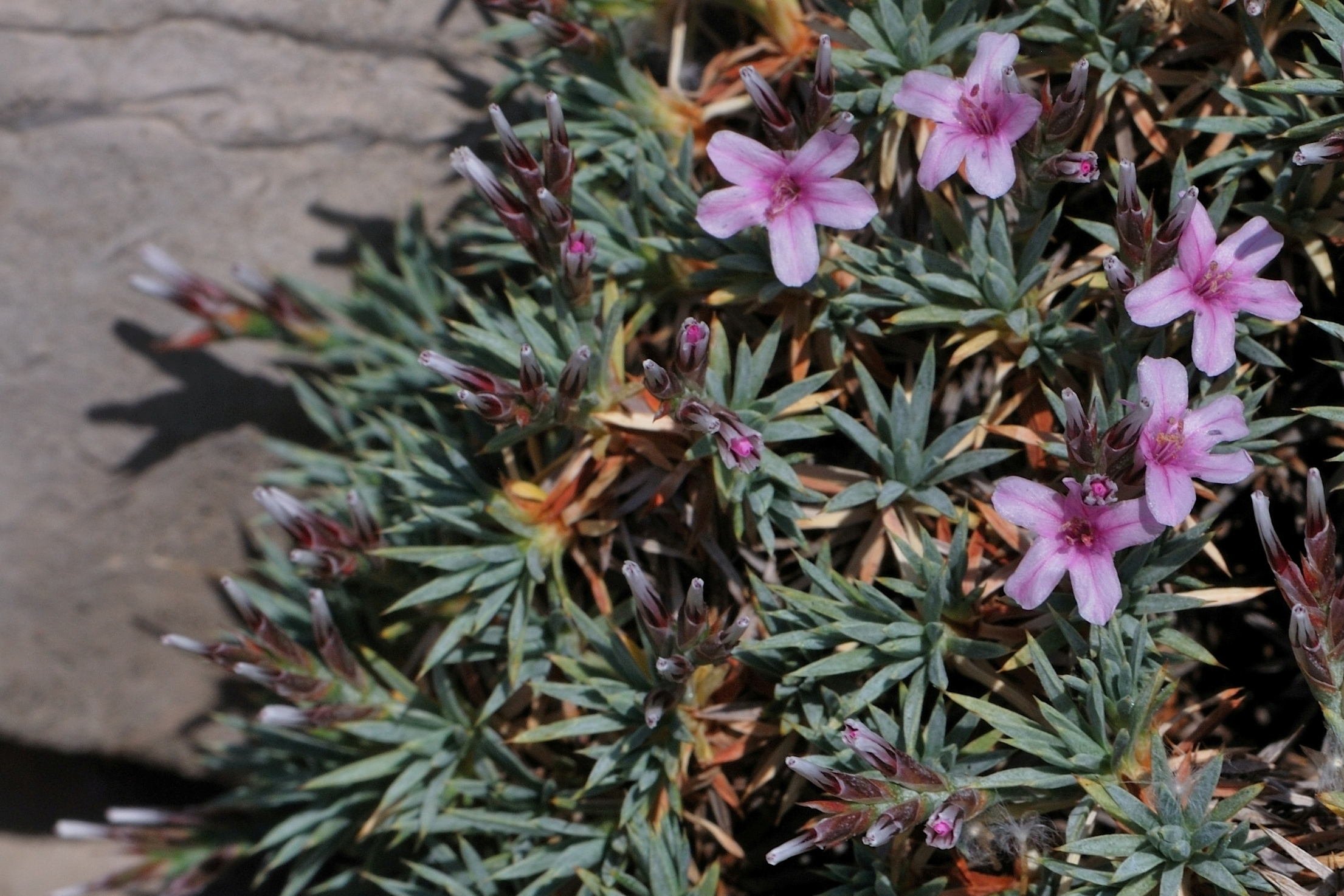 Acantholimon libanoticum Boiss., Mount Hermon, Israel/Syria, July 9, 2011.